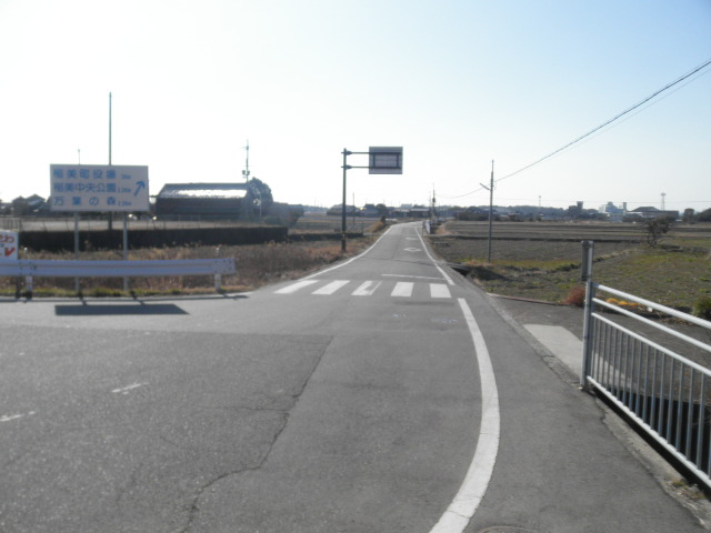 Nodani Inamitown Hyogopref Hyogoprefectural road 381 Nodani Hiraoka line